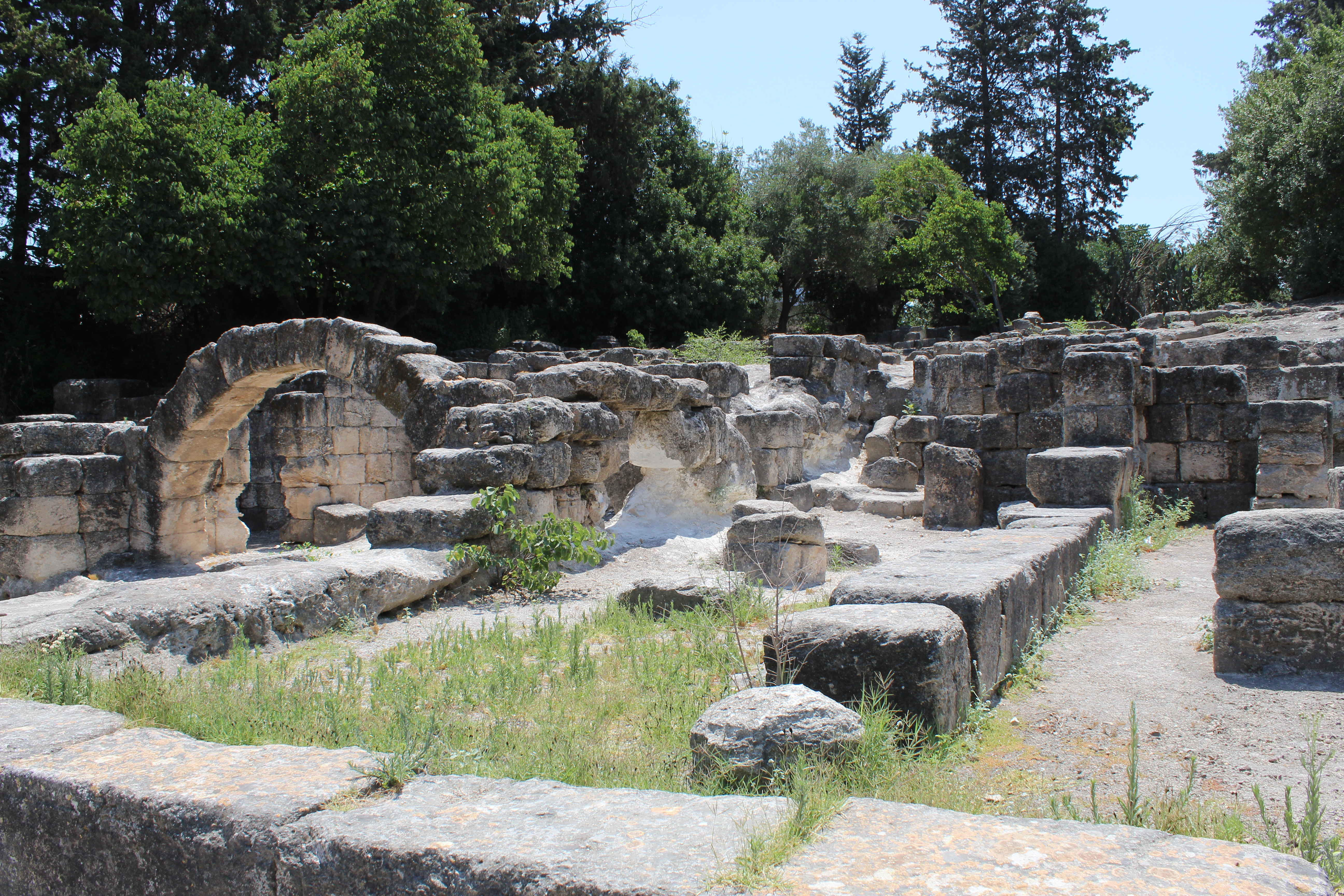 Basalt-stone structures in Beit Shearim (ruin)